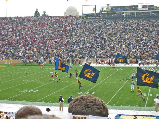 Rally Committee flags at the 2002 Berkeley-Stanford Big Game. Photographed by gku on November 23, 2002, at 3:35 PM.